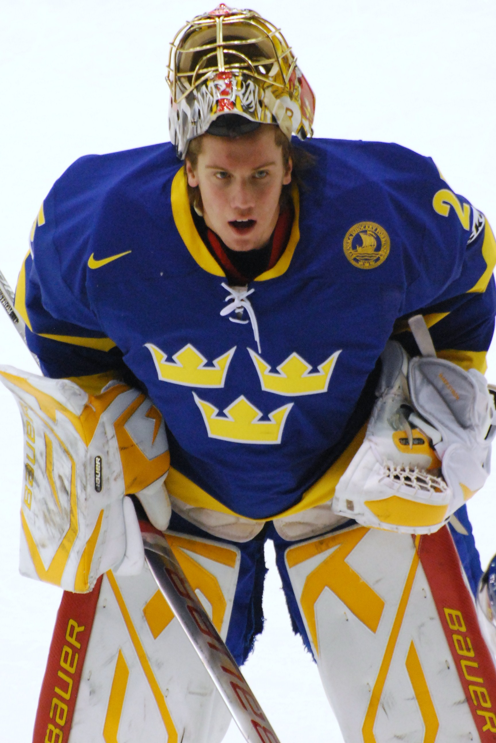 Swedish goaltender Jacob Markstrom during a game at the 2010 World Junior Championships.